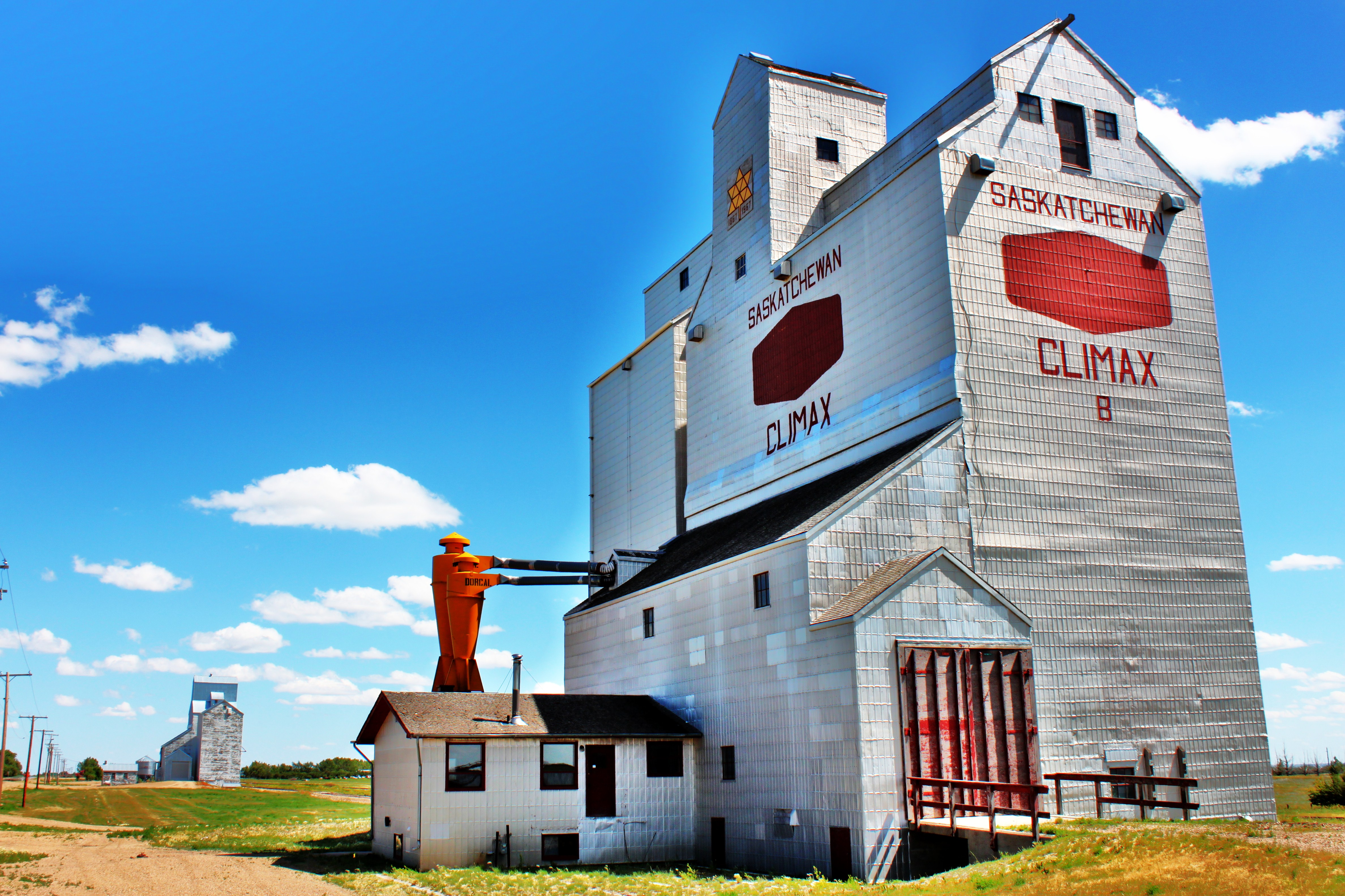 Climax